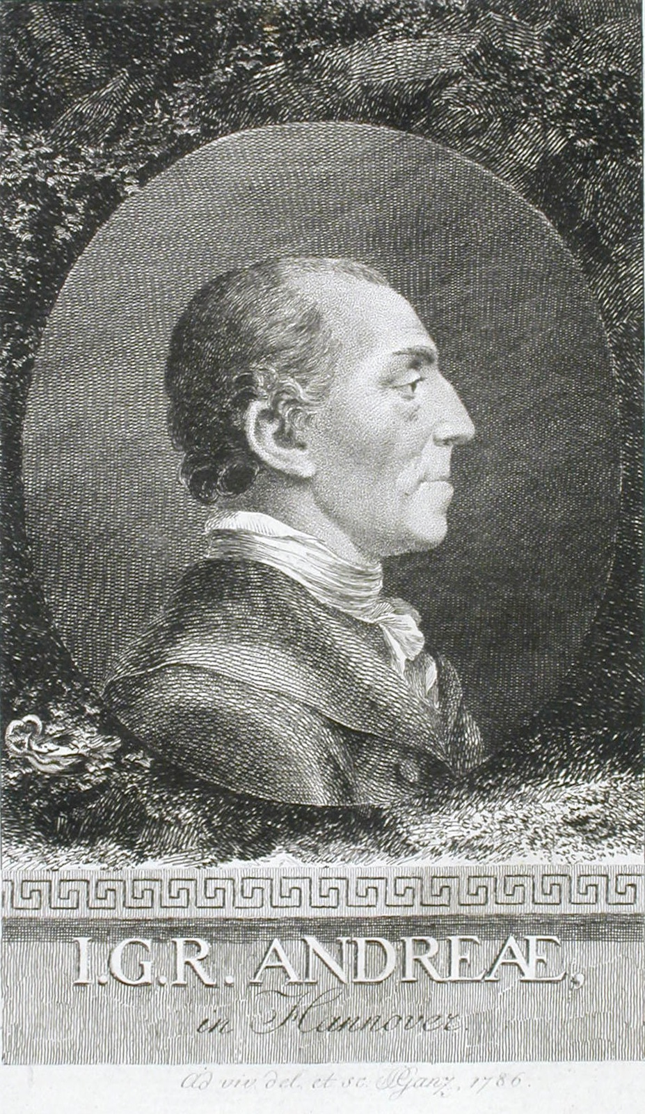 Engraving of Johann Gerhard Reinhard Andreae (1724–1793). Original caption: "I. G. R. ANDREAE, in Hannover, Ad. Viv. Del. et sc. Ganz, 1786."